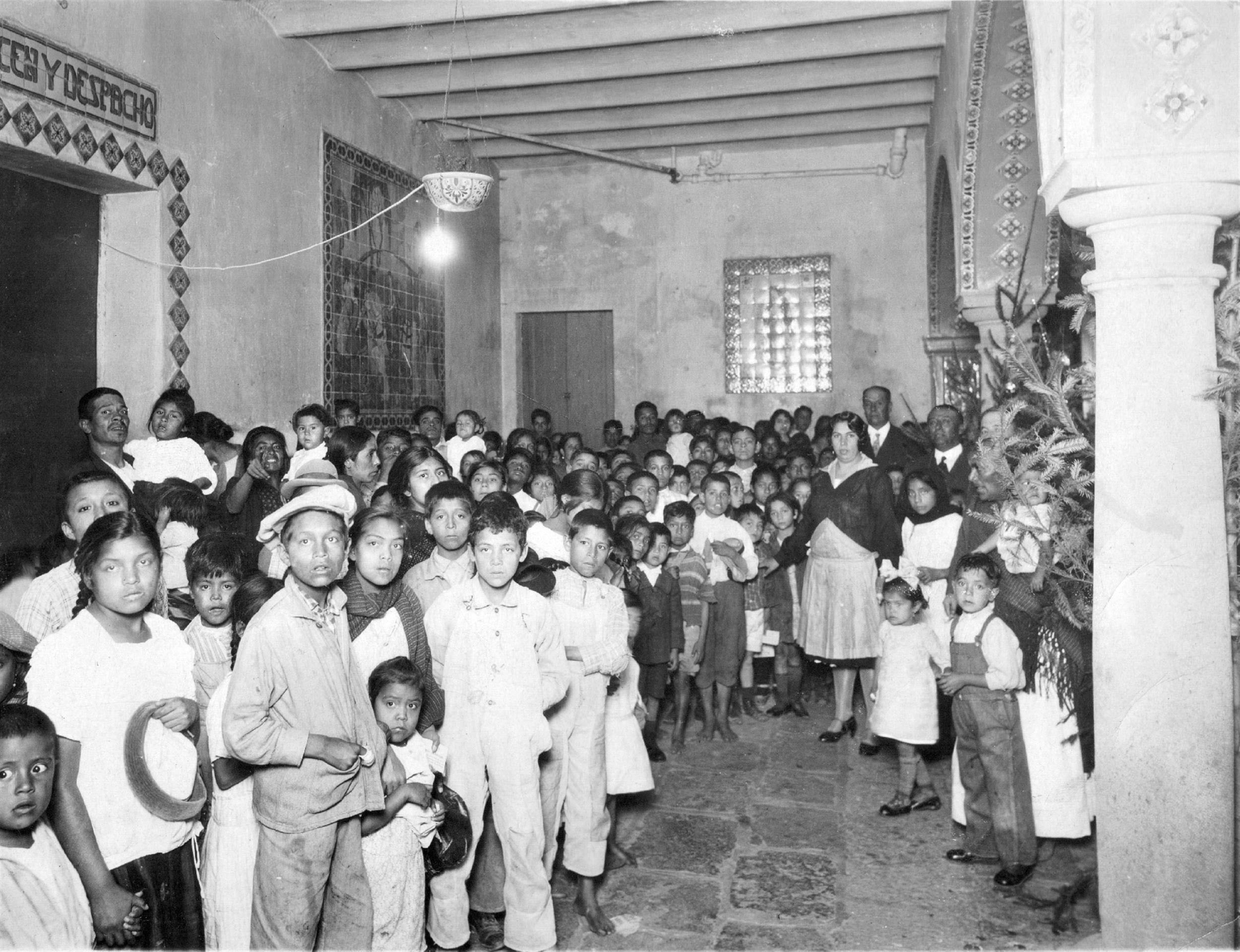 Photos of workers at Uriarte Talavera